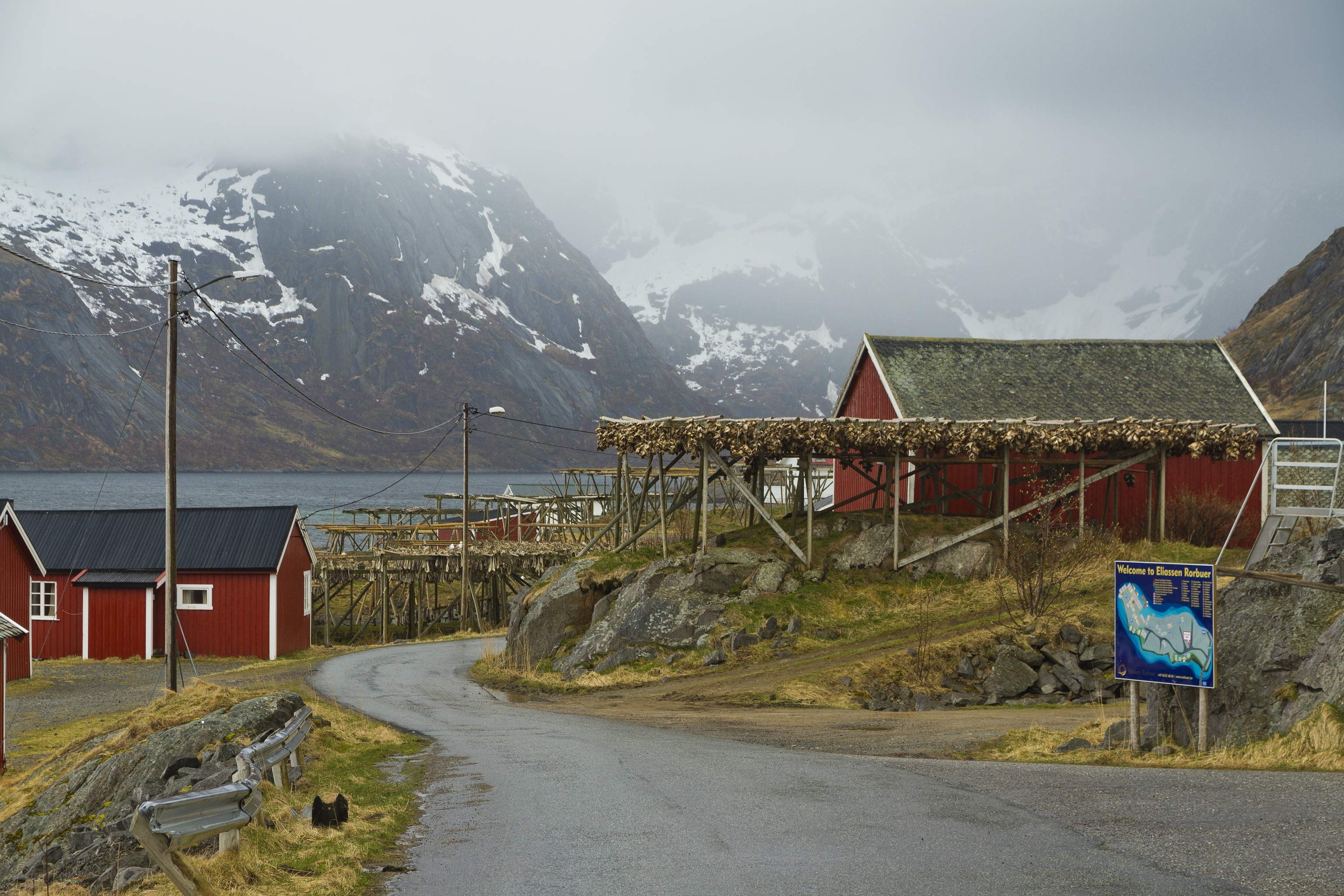 Eliassen Rorbuer fishermen cabin area in Hamnøya, Moskenes, Lofoten, Norway in 2015 April. There are lots of drying codfish hanging from fish racks.